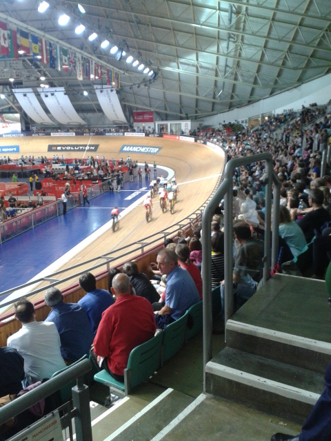 Start of the women's elimination race of the omnium at the 2013-14 track cycling world cup in Manchester